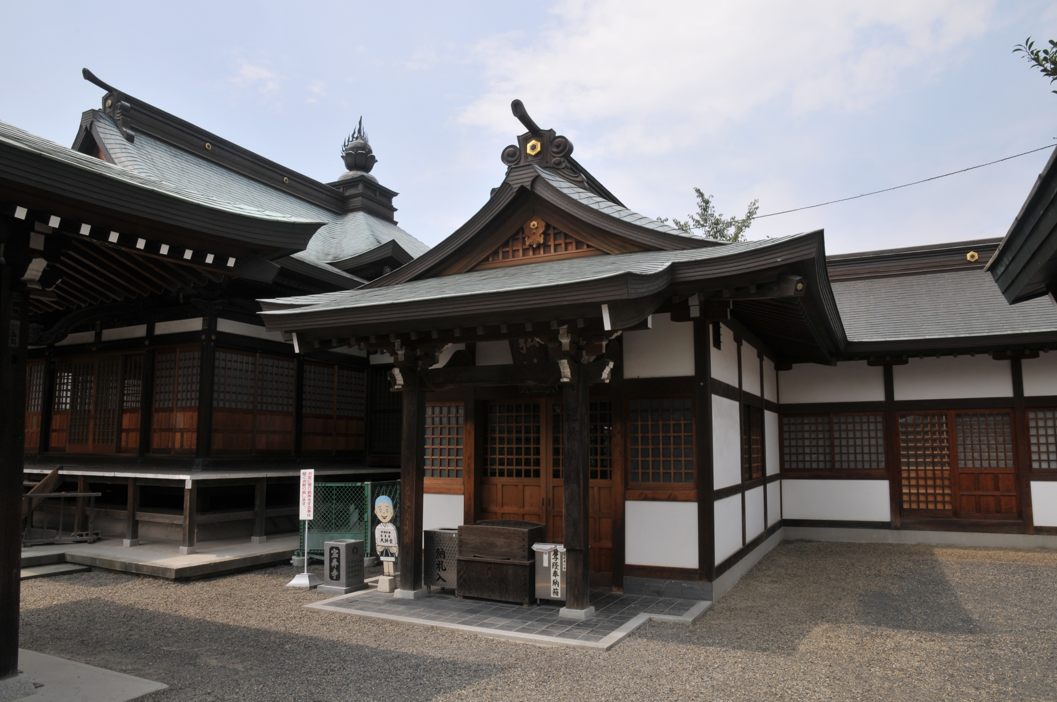 Daishi-dō, Hōju-ji